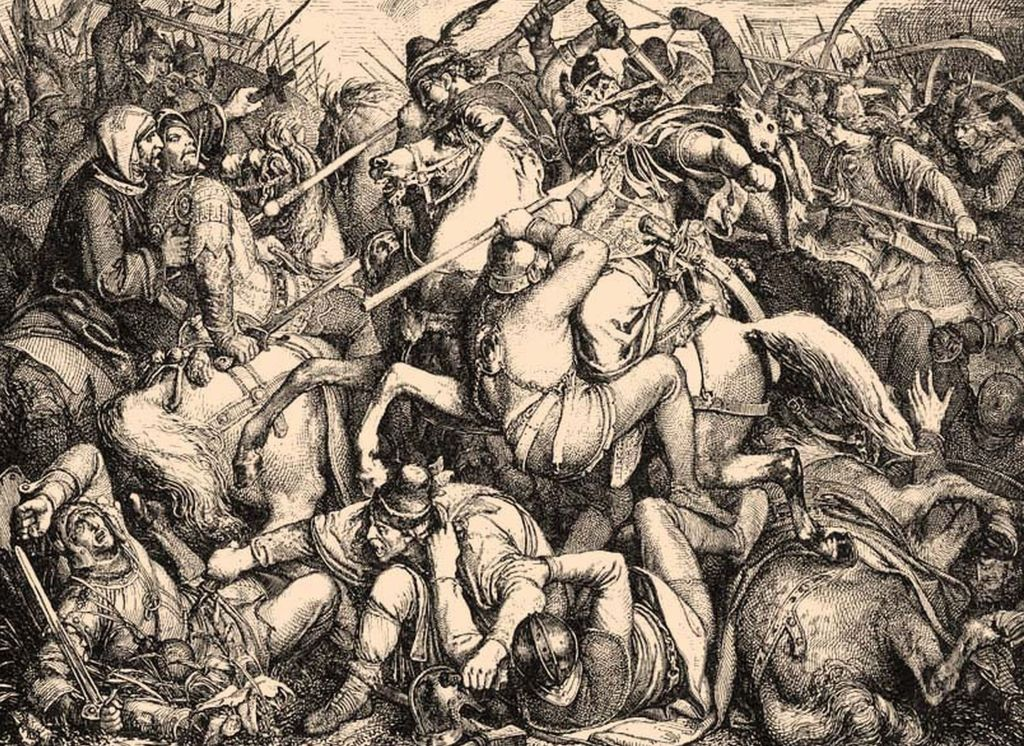 Peter Johann Nepomuk Geiger: Schlacht bei Pressburg (1850)